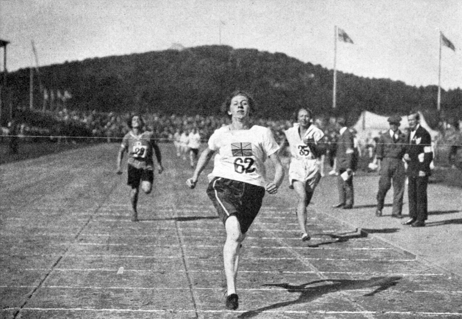 Women's World Games 1926 in Göteborg, Sweden. The winner of running 1000 metres miss Trickey. Second is Inga Gentzel (No. 35) Internationella kvinnospelen (Damolympiaden) 1926 i Göteborg. Löpning 1000 meter.